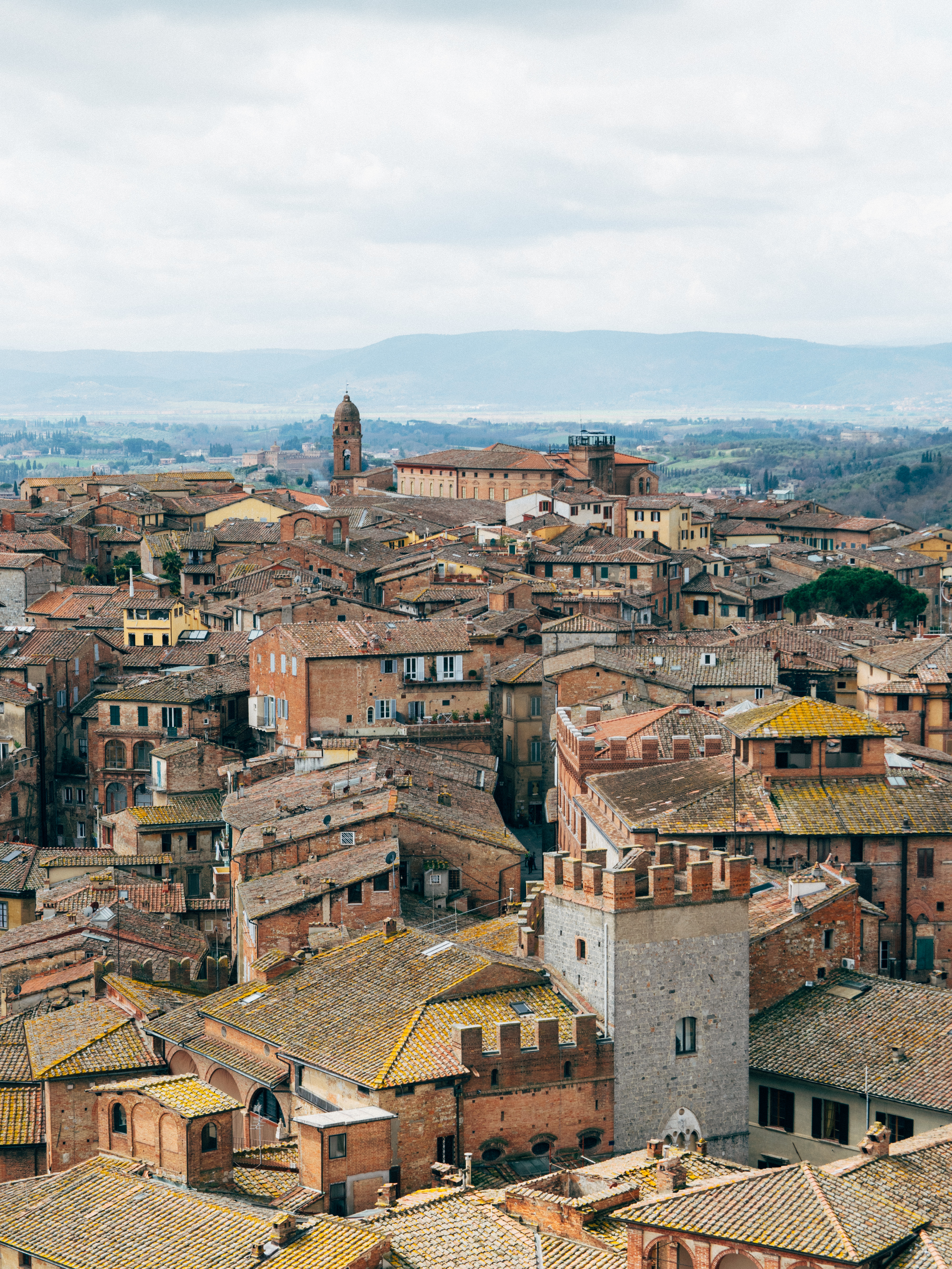 Panorama of the Italian city Siena